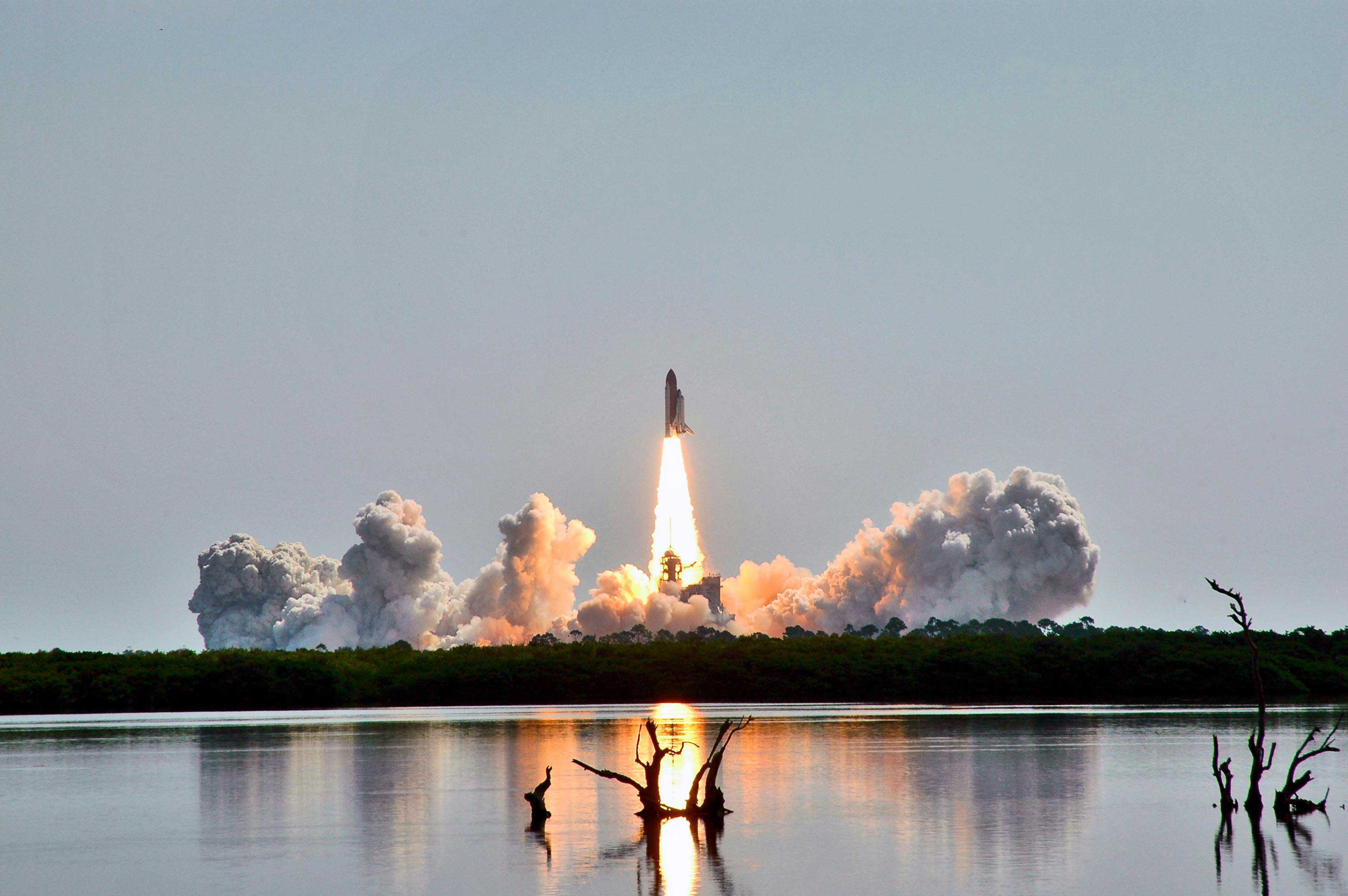 The silvery surface of this pond near NASA Kennedy Space Center?s Launch Pad 39B reflects the glowing clouds of smoke and steam from the launch of Space Shuttle Discovery on Return to Flight mission STS-114. (Image Credit NASA/KSC).